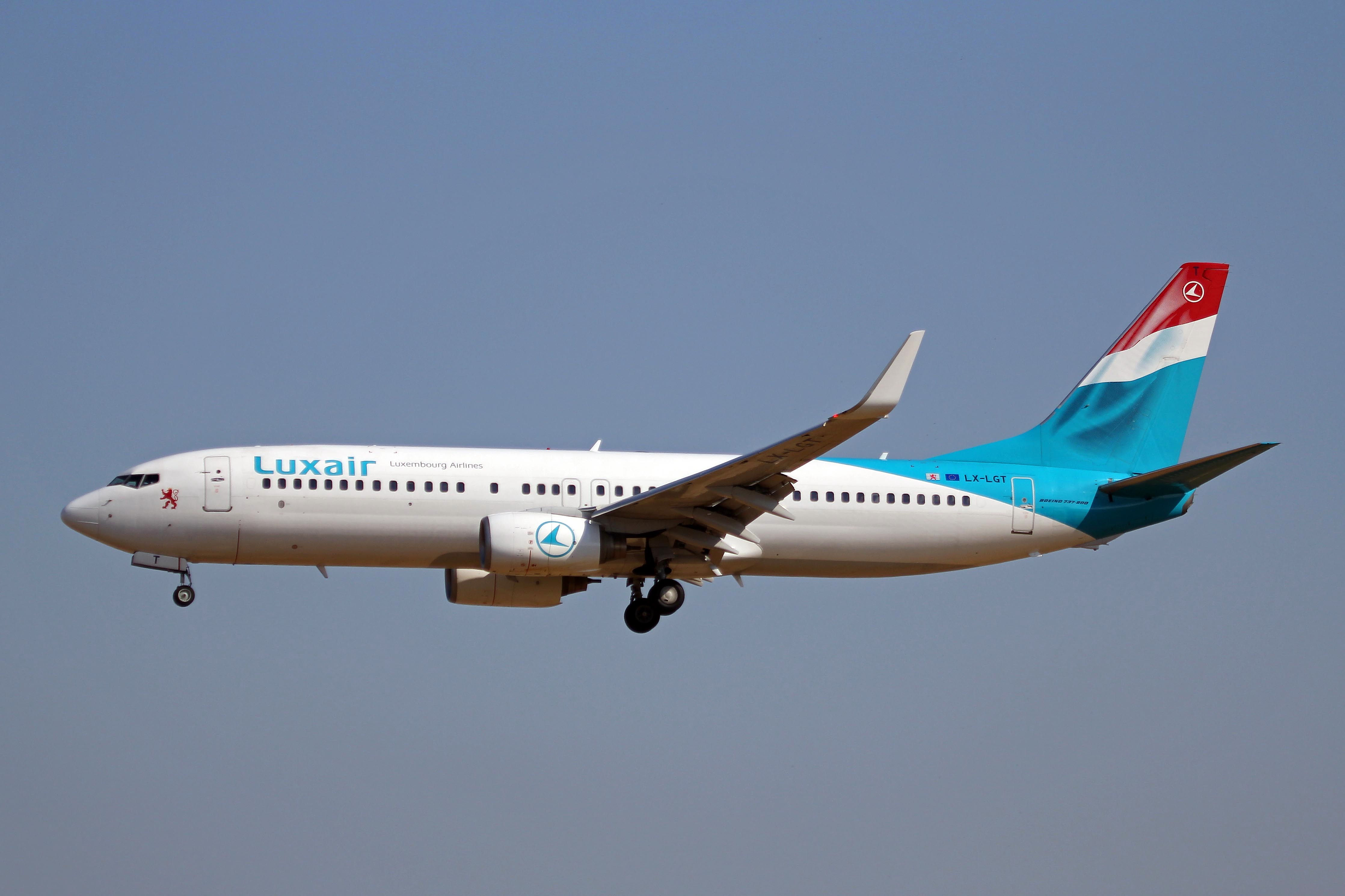 Boeing B737-800 (registration LX-LGT) of Luxair. At Palma de Mallorca Airport.